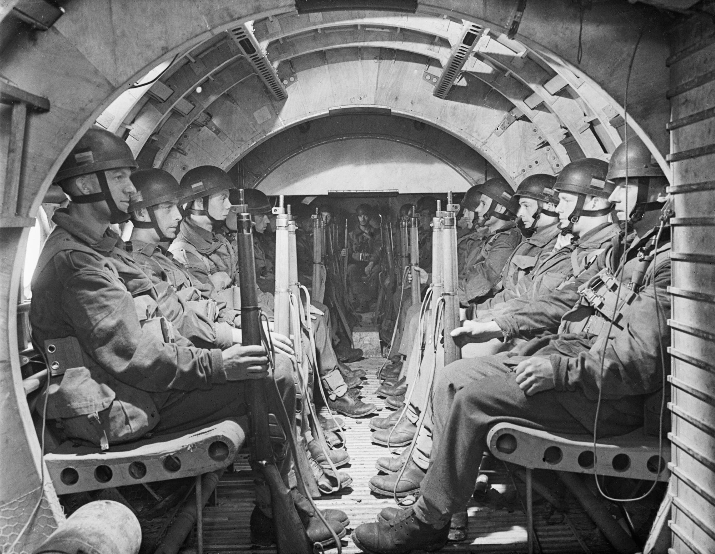 Royal Air Force Flying Training Command, 1940-1945. Airborne troops seated in an Airspeed Horsa of the Heavy Glider Conversion Unit at Brize Norton, Oxfordshire, ready for take off.